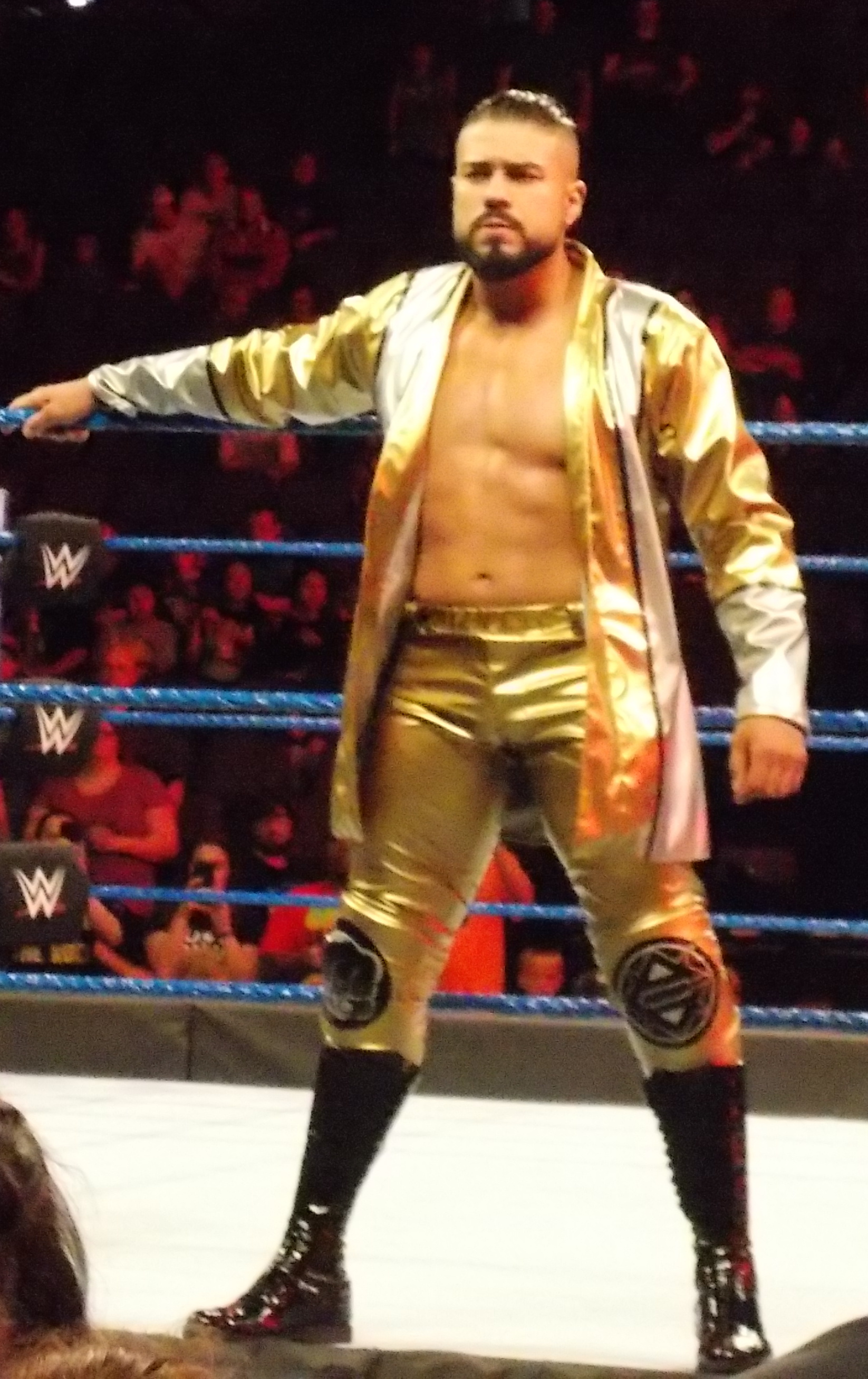 Andrade Cien Almas with Zelina Vega prior to a dark match at WWE SmackDown Live in Omaha, Nebraska, USA on Tuesday, July 3, 2018